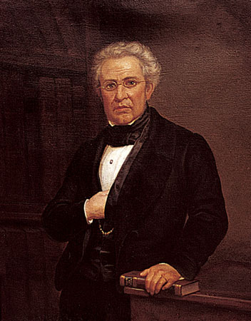 Lucas Alamán, President of Mexico